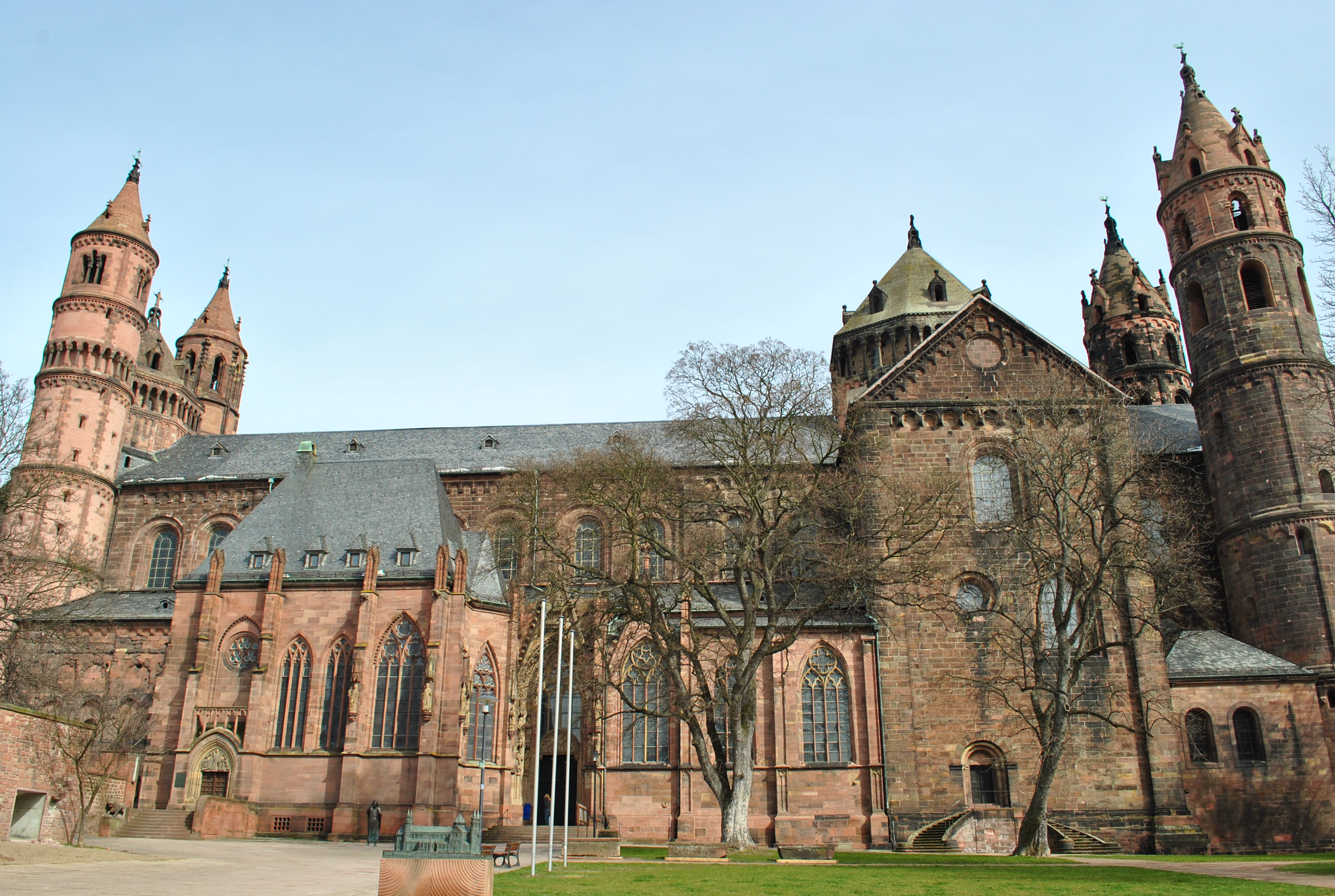 St. Peter's Cathedral Worms south side